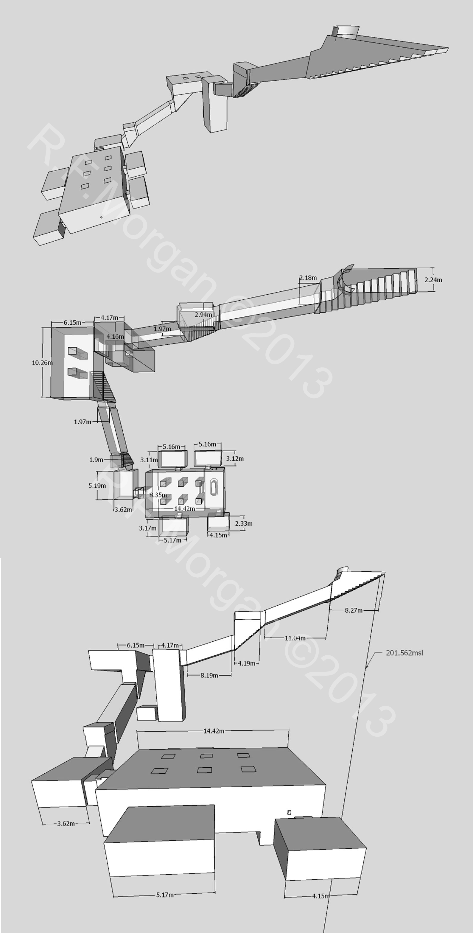 Isometric, plan and elevation images of KV43 taken from a 3d model